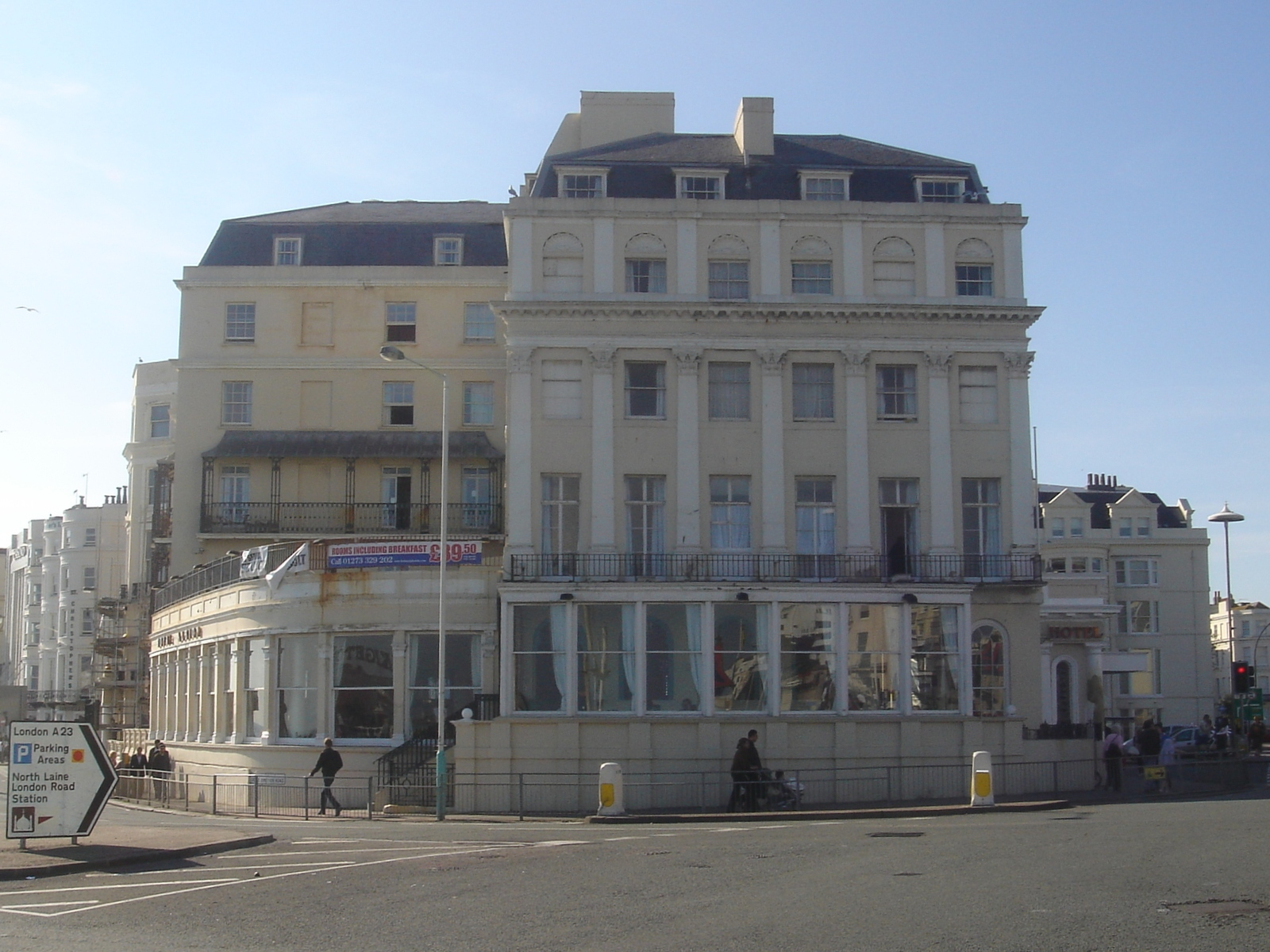 The Royal Albion Hotel, junction of Grand Junction Road (to the left of picture) and Old Steine (to the right), Brighton, City of Brighton and Hove, England. This view looks westwards. The hotel was built in 1826 and extended later. The part shown is listed at Grade II* by English Heritage (Heritage Gateway Code 294536); the other section is listed separately at Grade II.